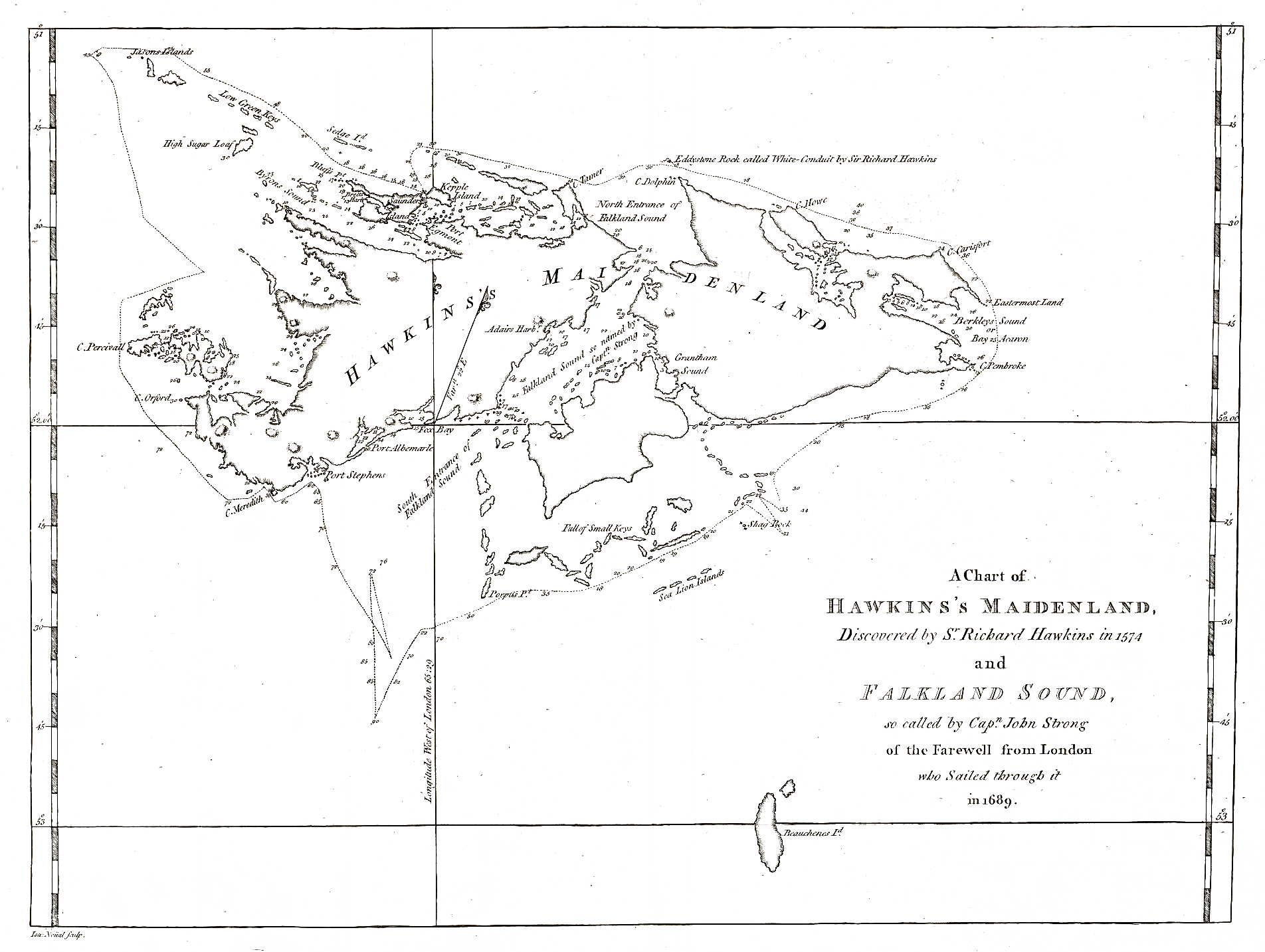 Chart by John MacBride from his 1766 hydrographic survey of the Falkland Islands, published in 1773 by John Hawkesworth and John Byron.